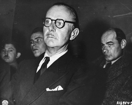 Prince Leopold Friedrich of Prussia, nephew of the late Kaiser Wilhelm II, sits in on the proceedings at the trial of former camp personnel and prisoners from Dachau. Locale: Dachau, [Bavaria] Germany